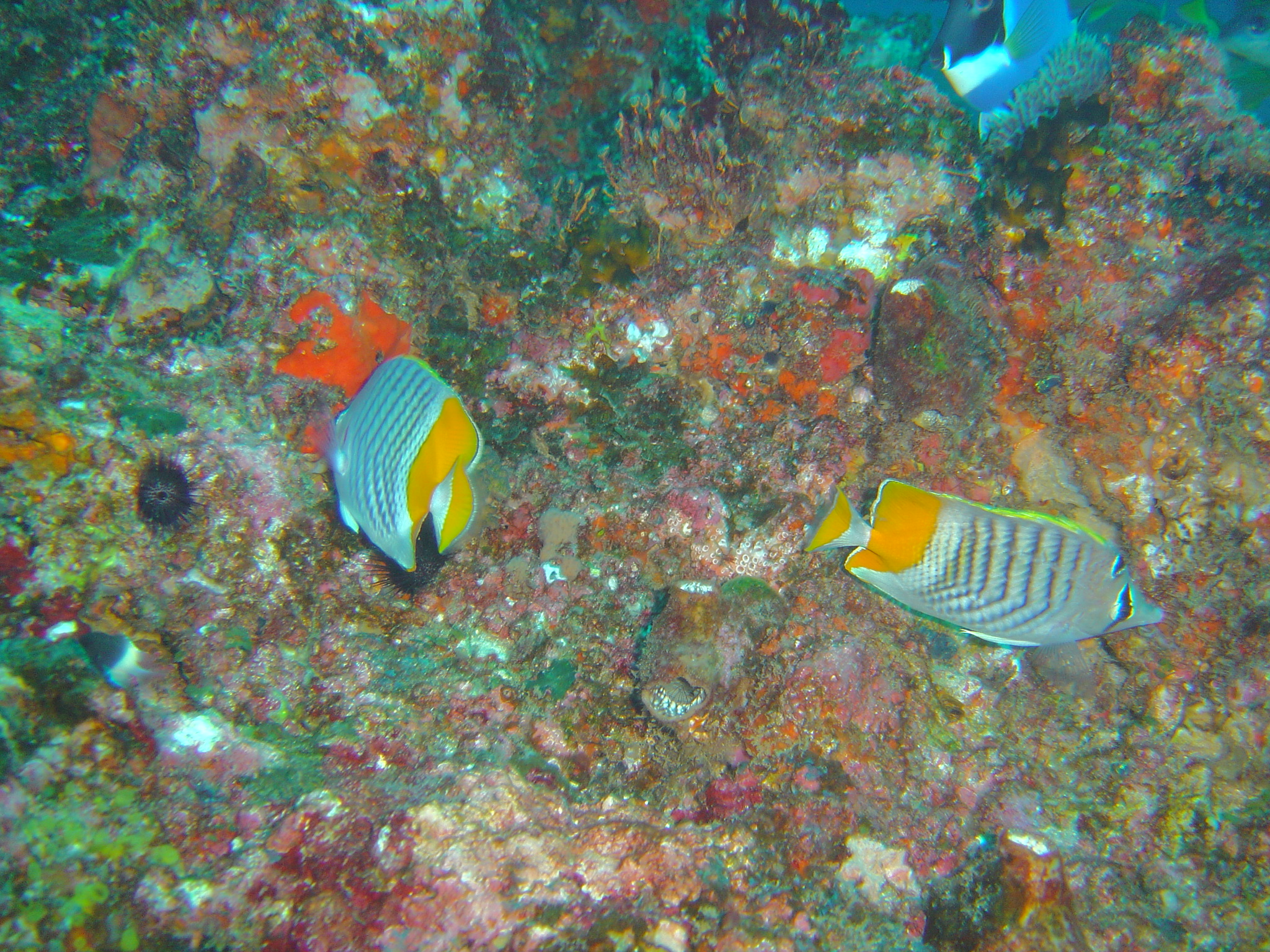 Pearly butterfly fish, Guinjata Bay.